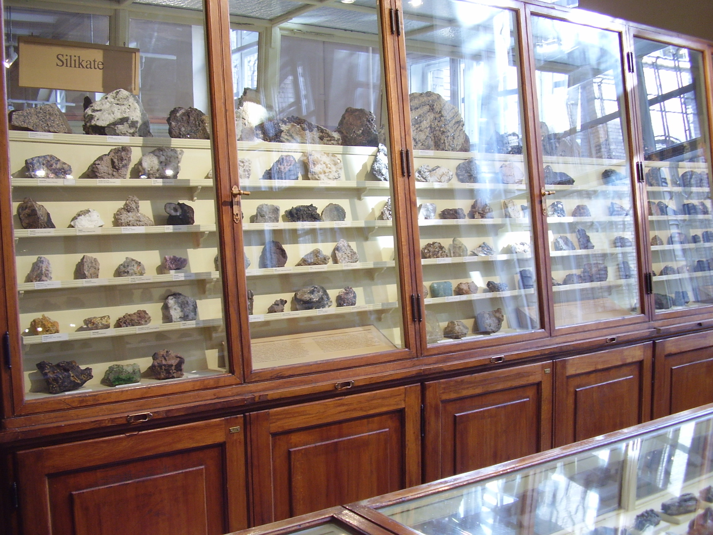 Berlin Museum of Natural History